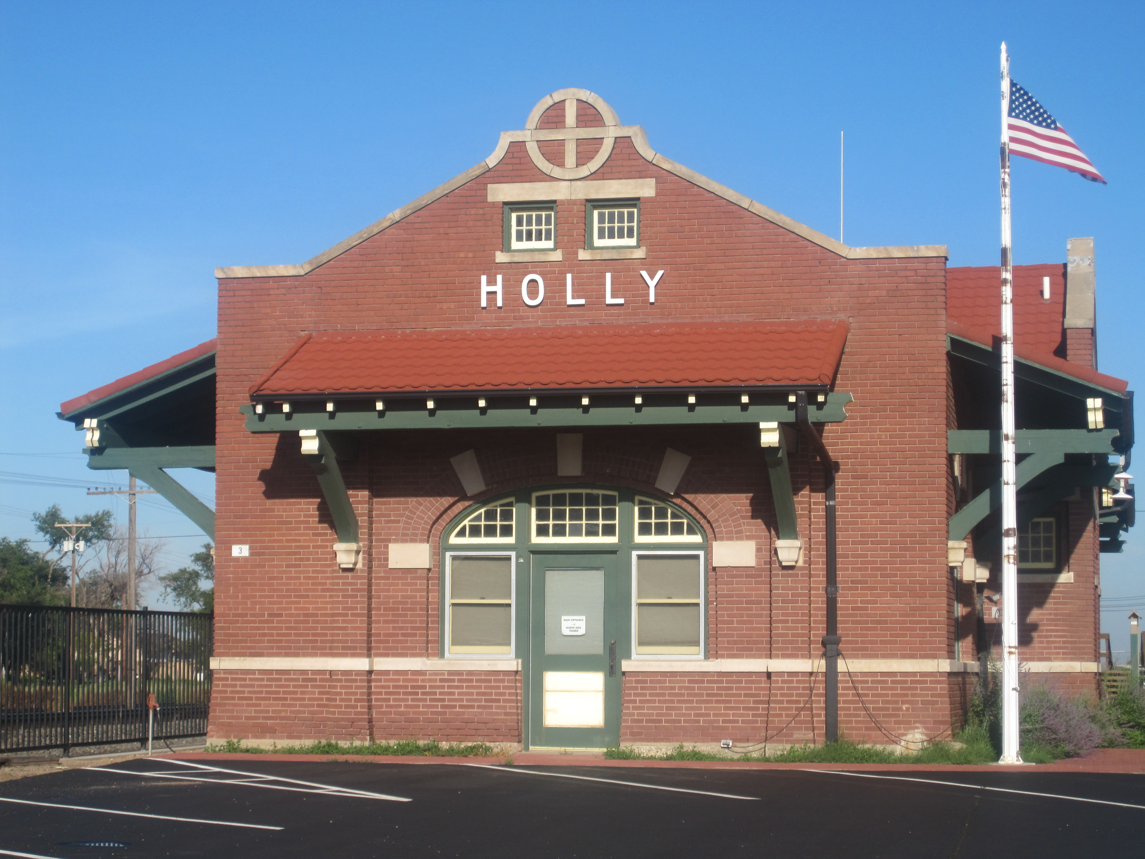 I took photo with Canon camera in Holly, CO.